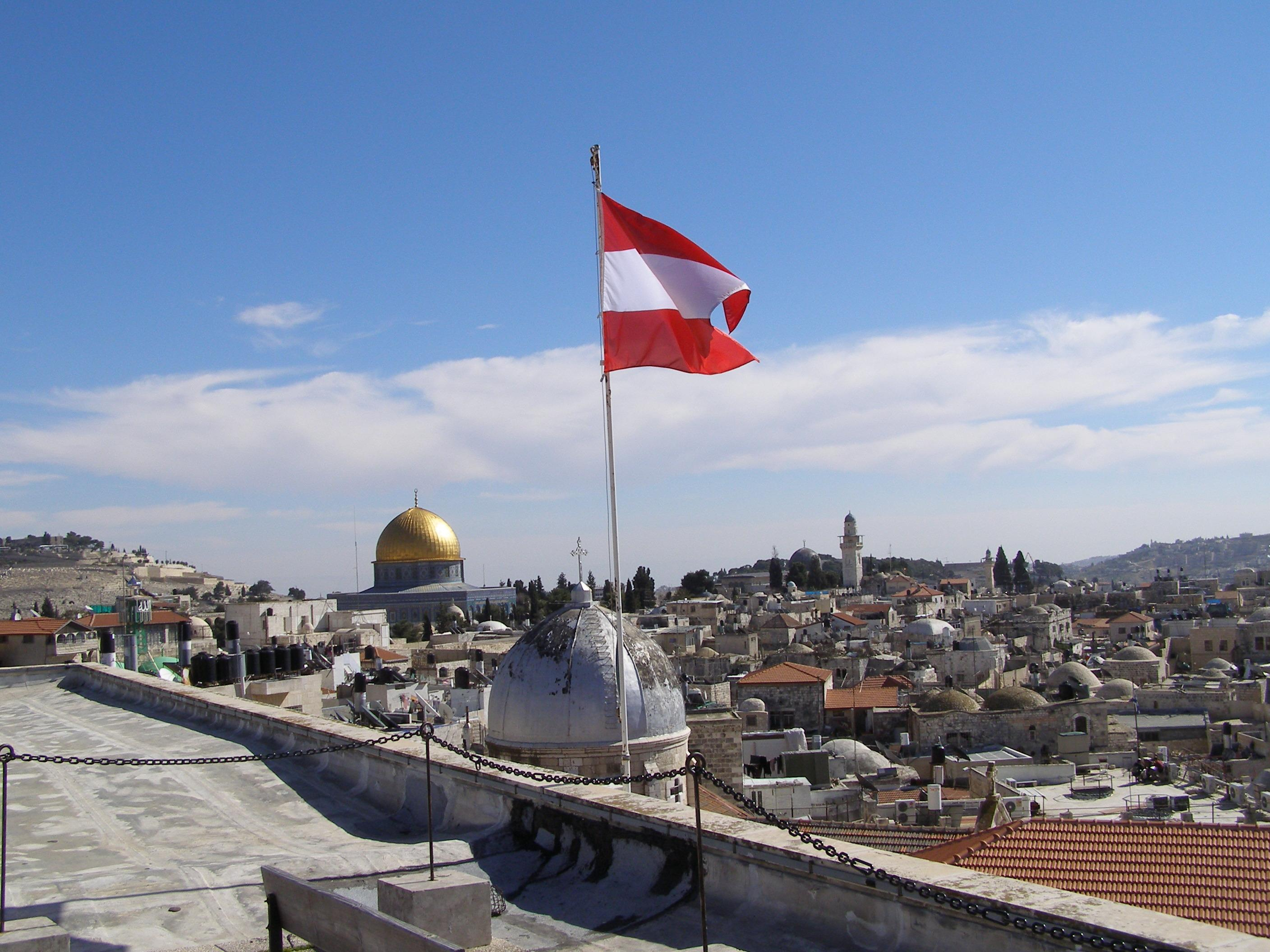 View from the Austrian Hospice on to the Old City of Jerusalem. Austrian flag is hoisted.